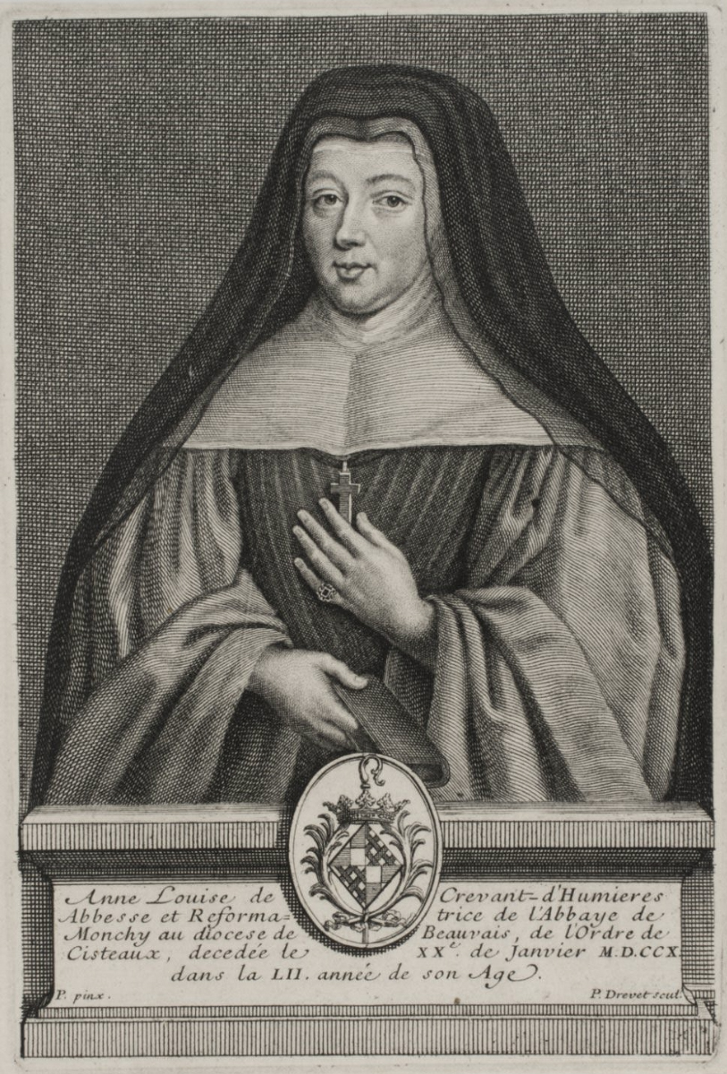 Anne Louise de Crevant, abbesse de l'abbaye de Monchy-Humières